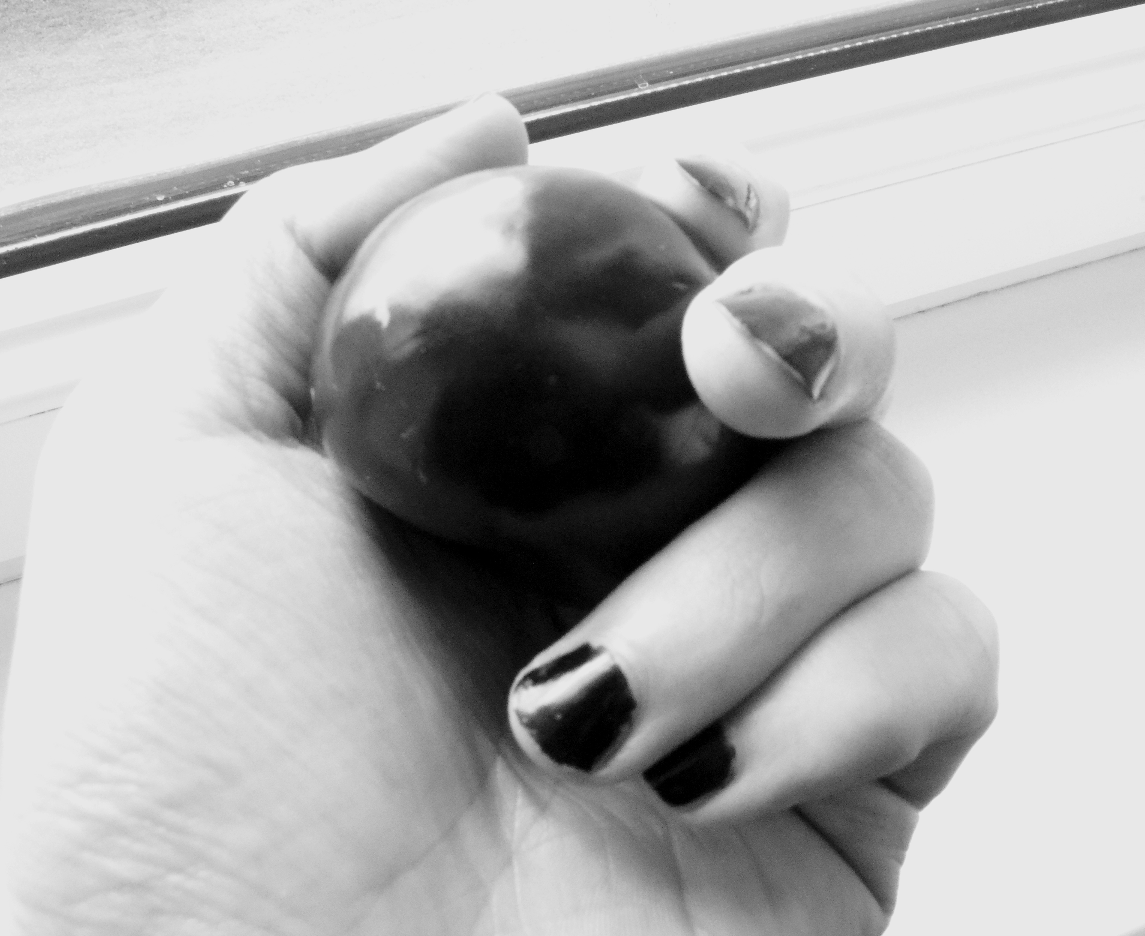 A hand of man with black nails holding a plume